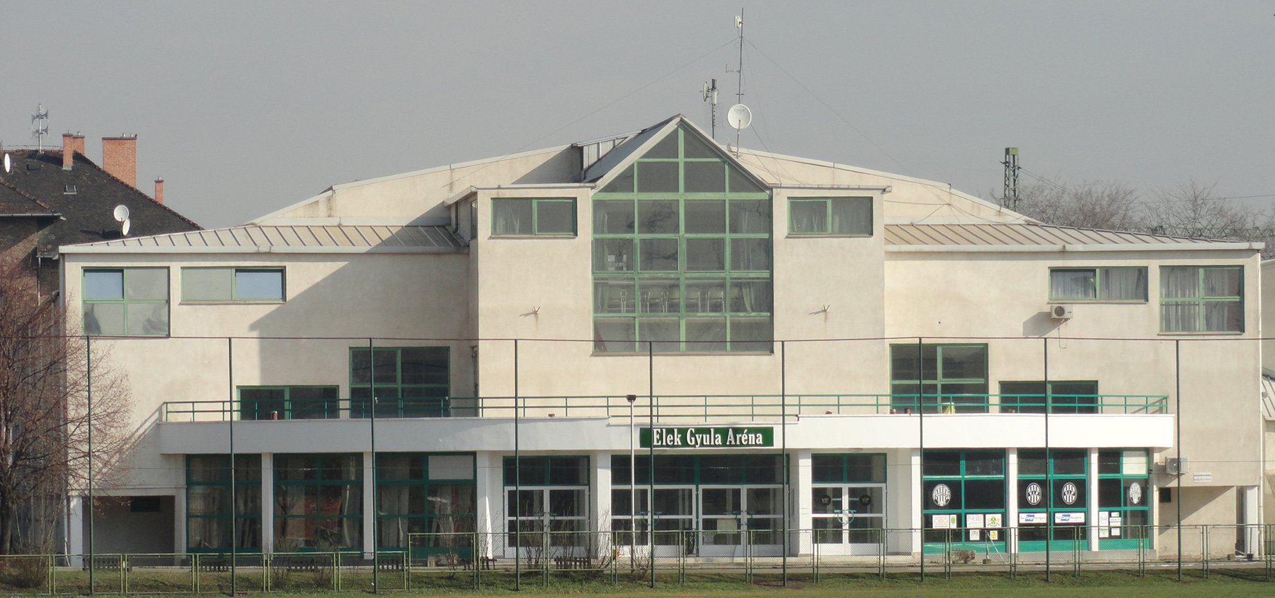 Elek Gyula Arena - Home of the Ferencváros handball team